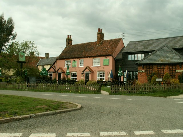 'The Cock Inn', Polstead, Suffolk.